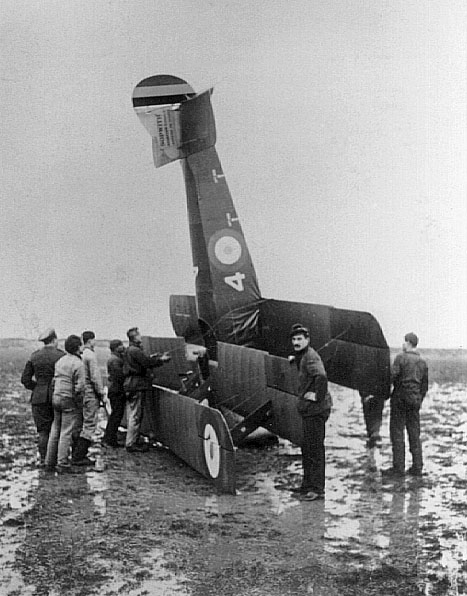 Crashed Triplane. The general condition of the field and the relative lack of a/c damage indicate a low speed nose-over.